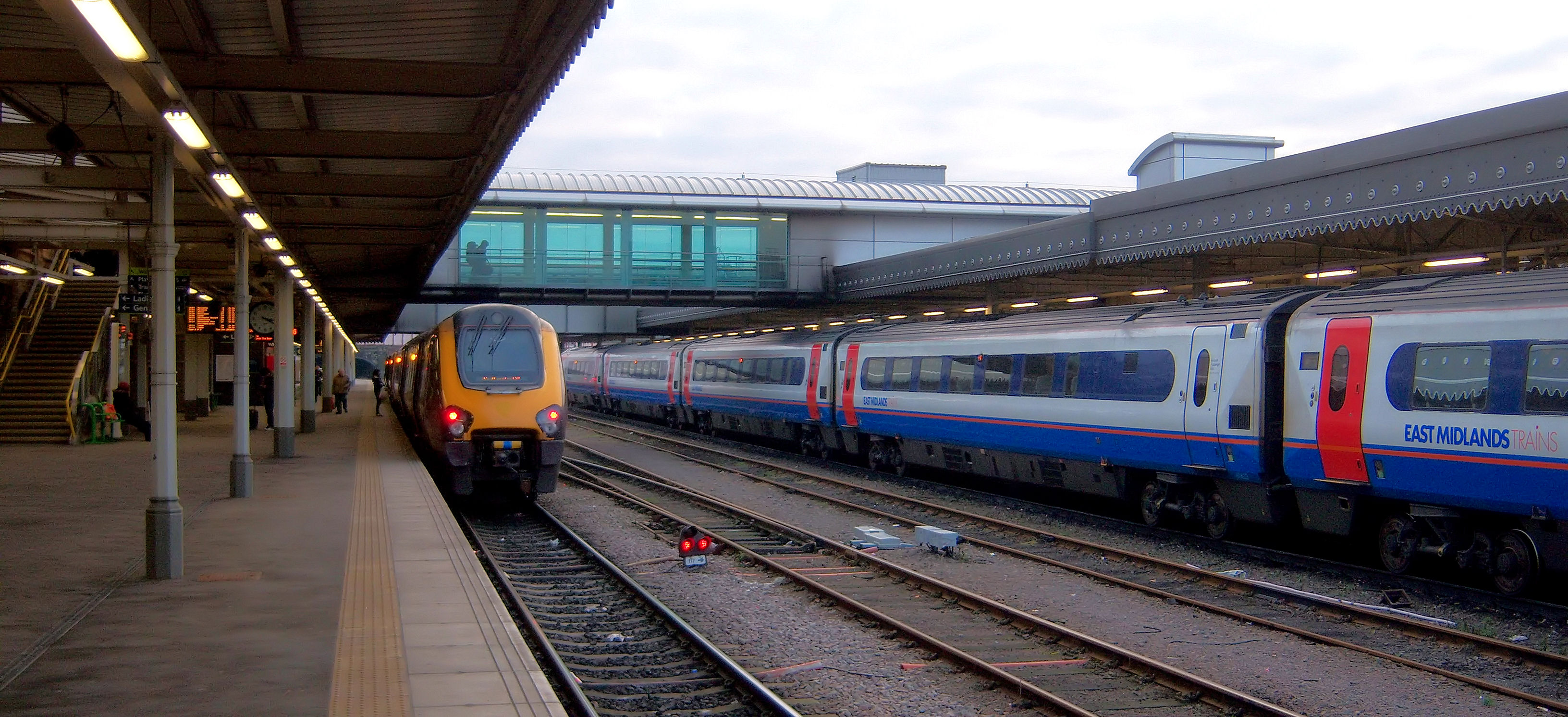 A photo of trains and platforms at Sheffield Station